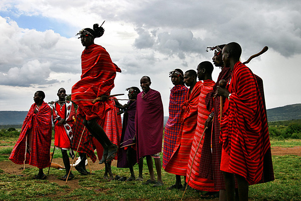 Masai Dance. Maasai Mara Reserve,Kenya. The higher you jump the more women you can marry...